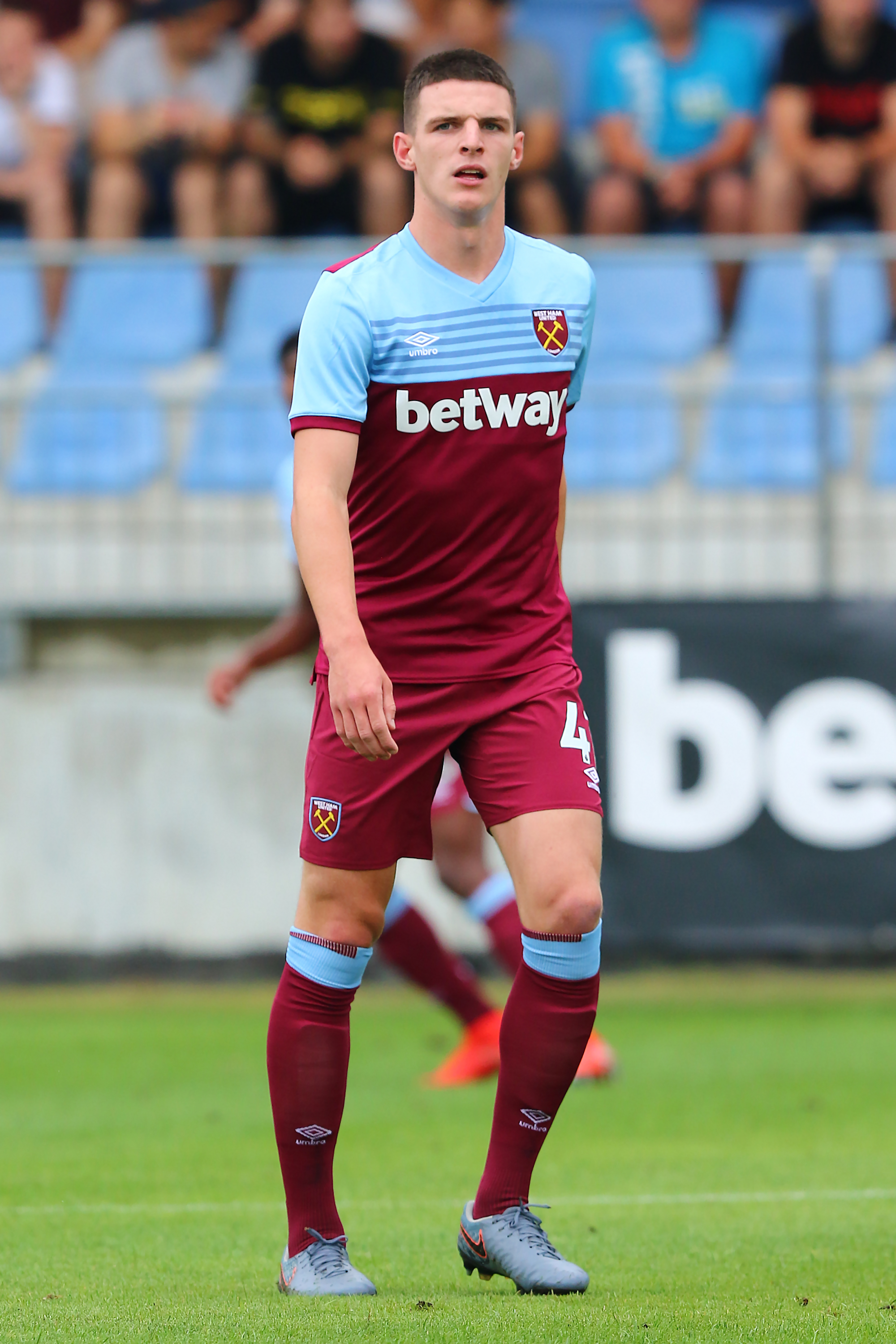 Friendly match Hertha BSC (blue-white shirts) vs. West Ham United (red-blue shirts) at 31-07-2019 3-5 (3-2) in the Sonnenseestadium in Ritzing. – The photo shows Declan Rice (West Ham United).